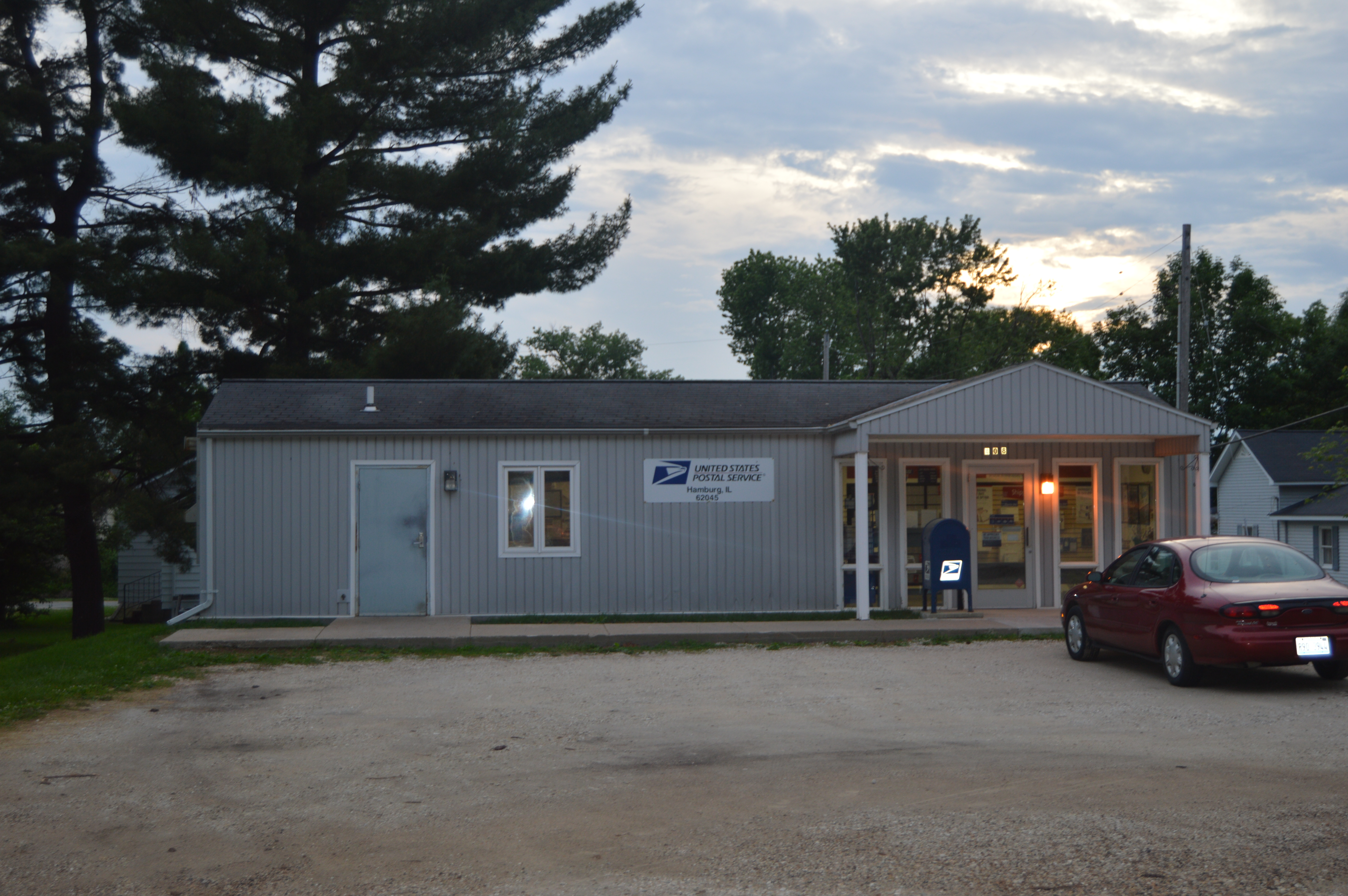 Front of the Hamburg post office, located at 408 State Street in Hamburg, Illinois, United States.